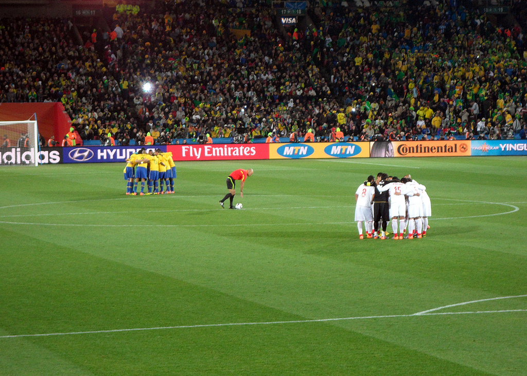 Brazil and Chile huddle up as Howard Webb places the ball.